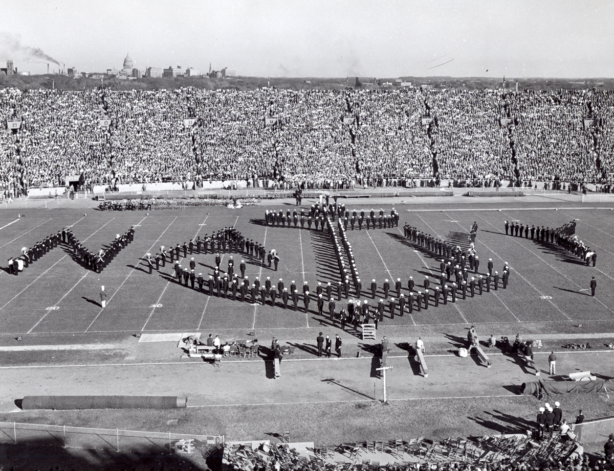 UW Band spells out word "Navy" with anchor in center. n: 1940/1949. Madison, Wisconsin. Image ID# S06264. For more information about this image or UW-Madison campus history, .